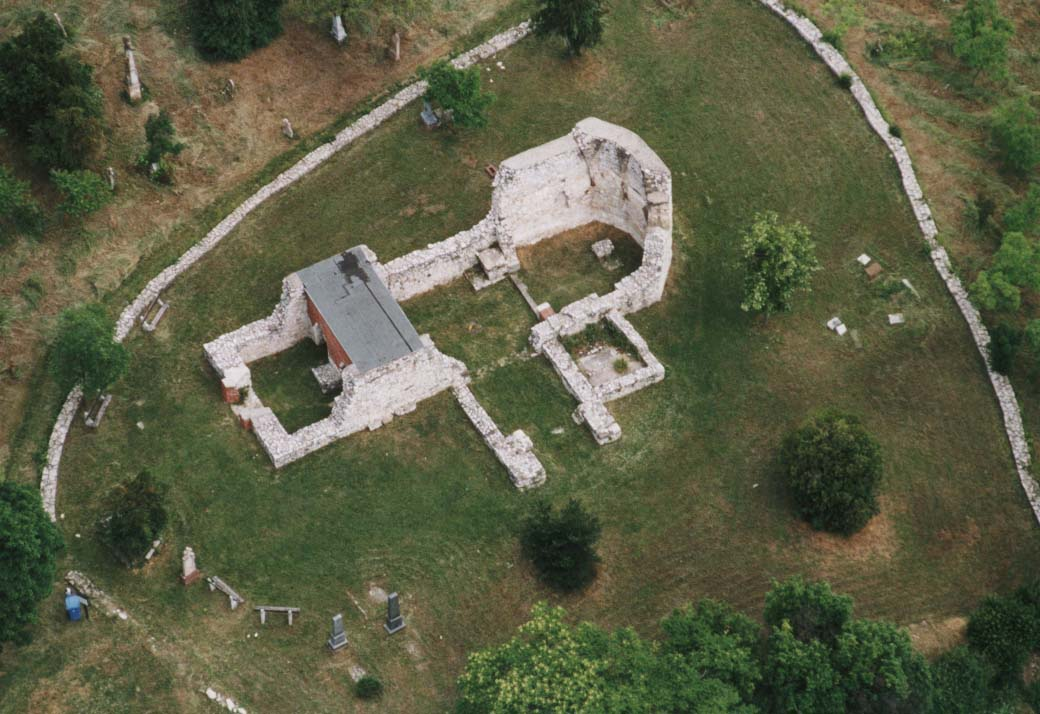 Balatonfüred, Kiserdő, Base of St. Margaret's Church